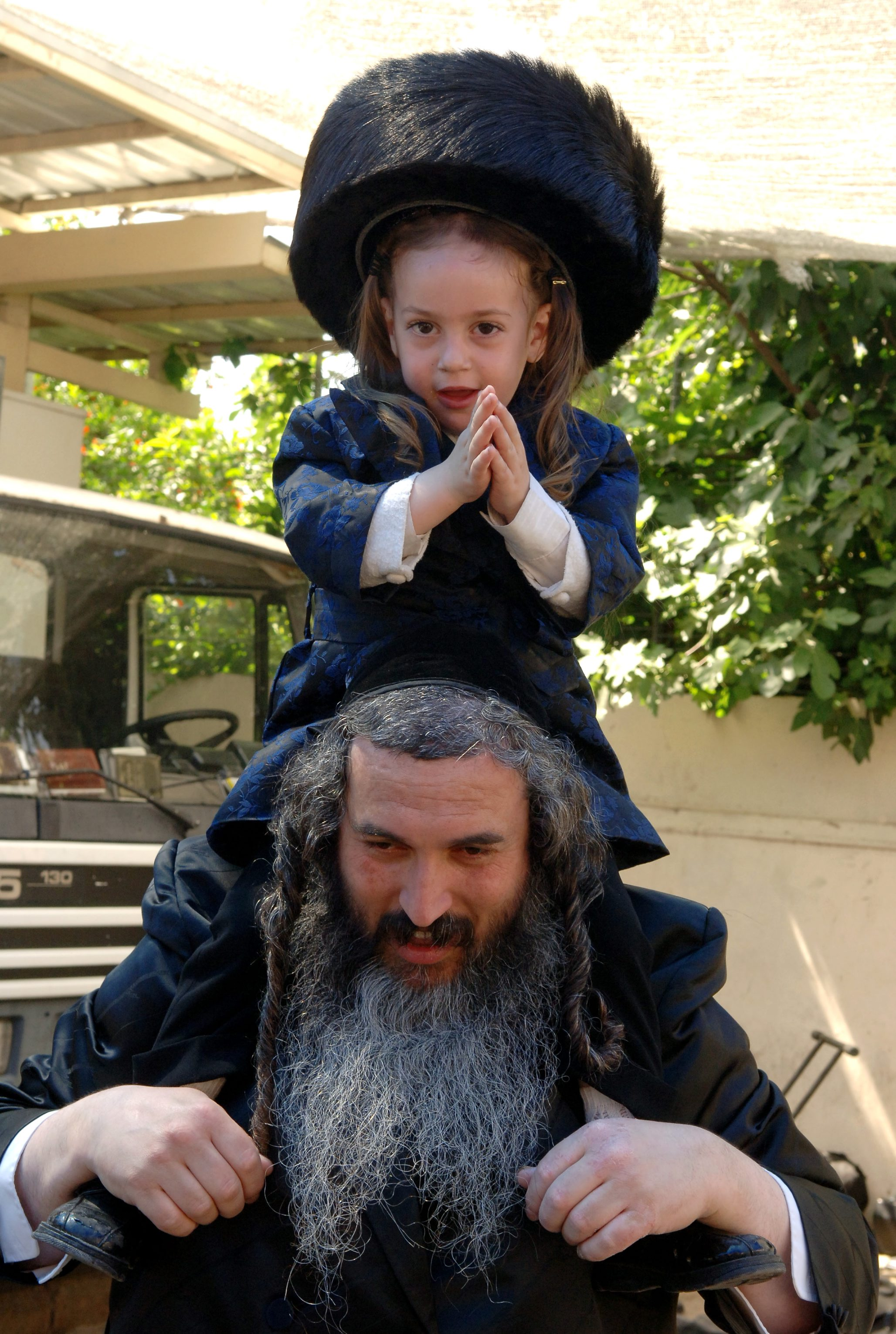 The Halakhah ceremony, during which three-year-old boys get their first haircut, is held at the tomb of Shimon Hatzadik in Jerusalem on Lag Ba'Omer.